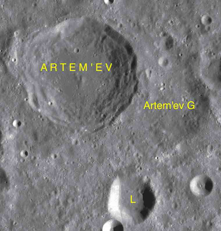 Part of the chart LAC-70 used for the presentation.